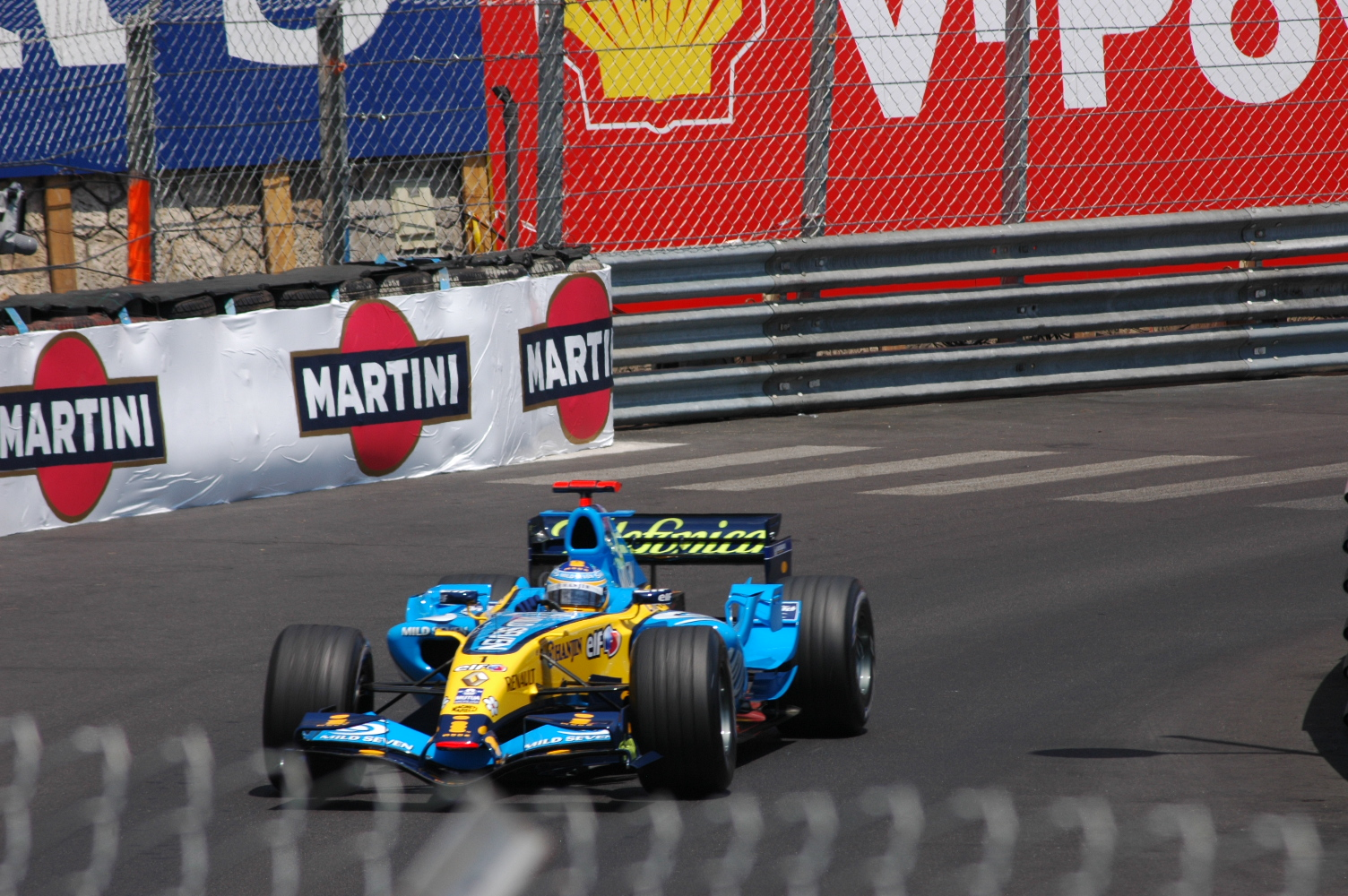 Fernando Alonso Renault R26 (2006) during the Formation Lap for the 2006 Monaco Grand Prix.